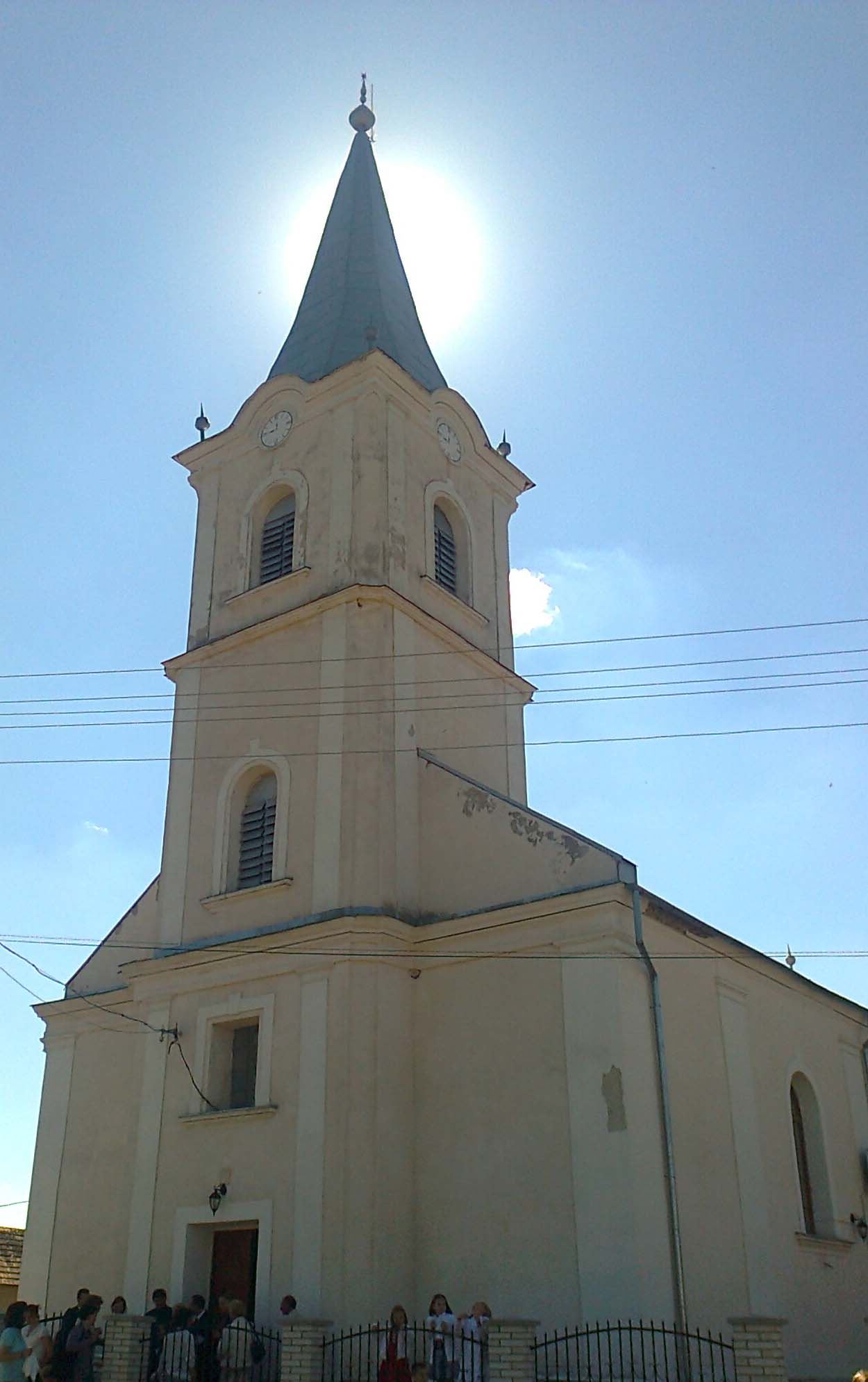 Reformed church in Fornosh (Ukraine) built in 1895